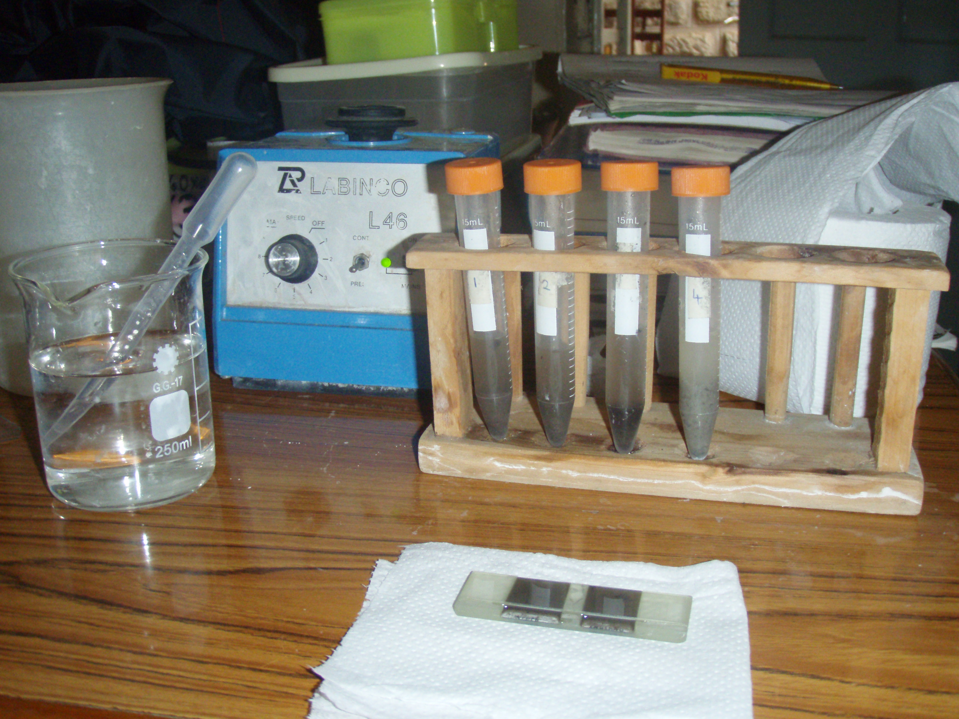 Photographer: Laura Kraft Date: Feb.2010 The method from the Manual of Parasitological and Bacteriological Techniques (WHO, 1996) is used to determine helminth eggs in the UDDT products.